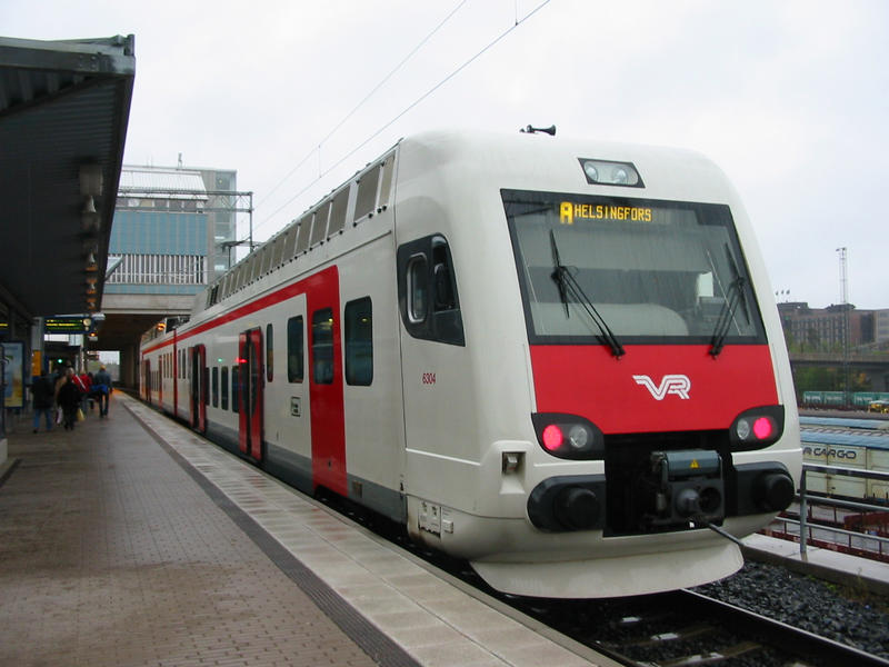 A VR Class Sm4 commuter train at the Pasila railway station, Helsinki, Finland